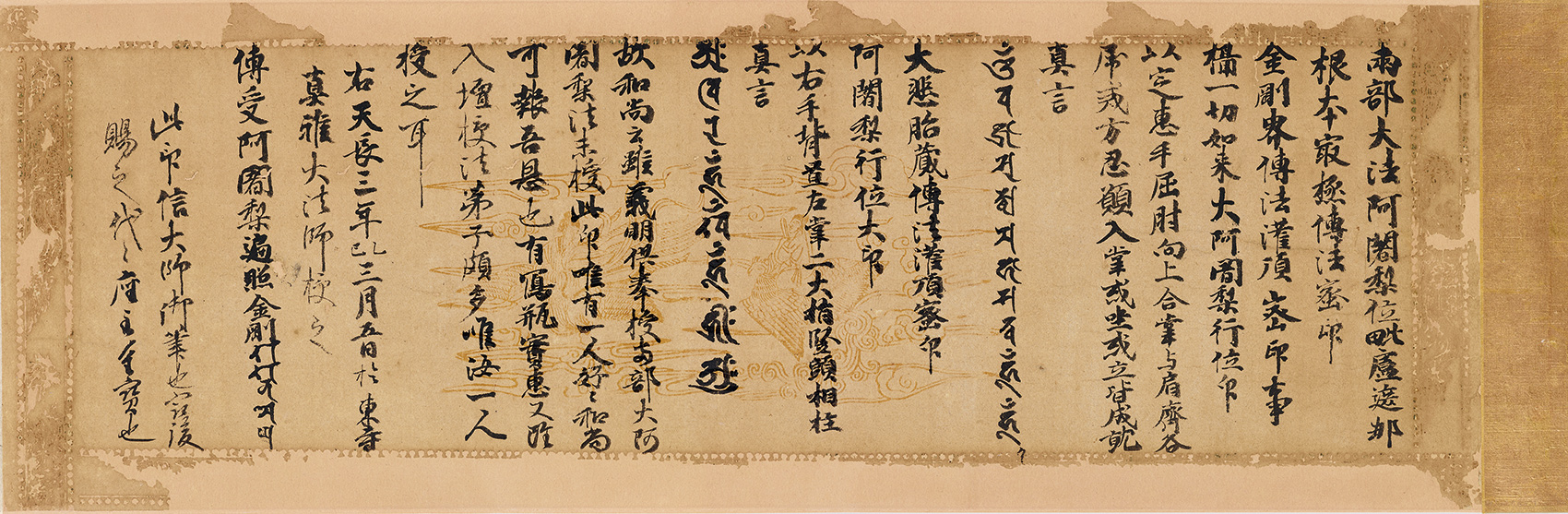 Go-Daigo Tennō Shinkan Tenchō Injin (Rōsen), calligraphy: Emperor Go-Daigo, design: Monkan-bō Kōshin, photo: Kyosuke Sasaki. See also File:Go-Daigo Tennō Shinkan Tenchō Injin (Rōsen) Okugaki.jpg.